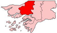 Map of Guinea-Bissau showing Oio region.